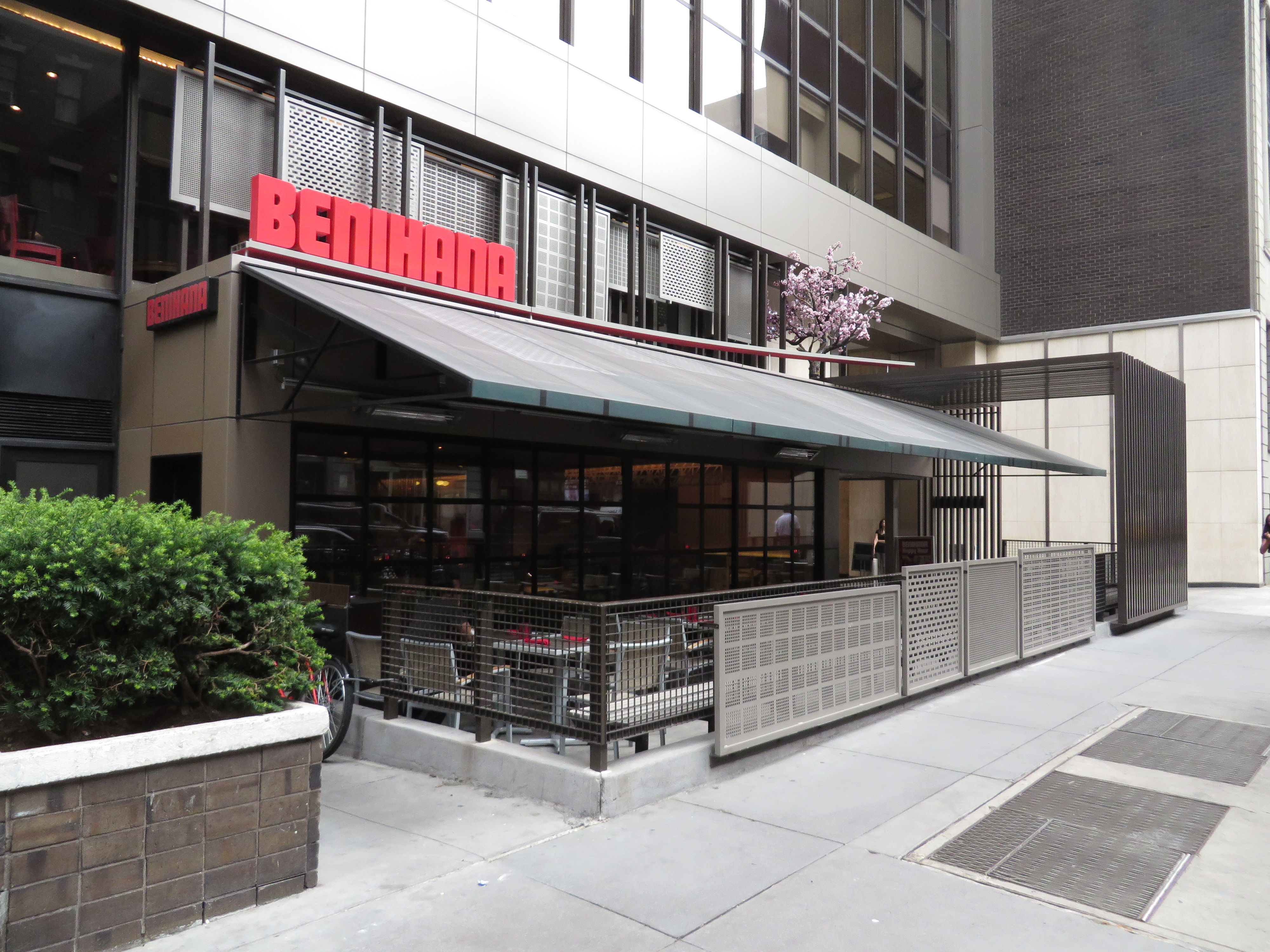 Benihana restaurant, 47 West 56th Street, Manhattan, New York.